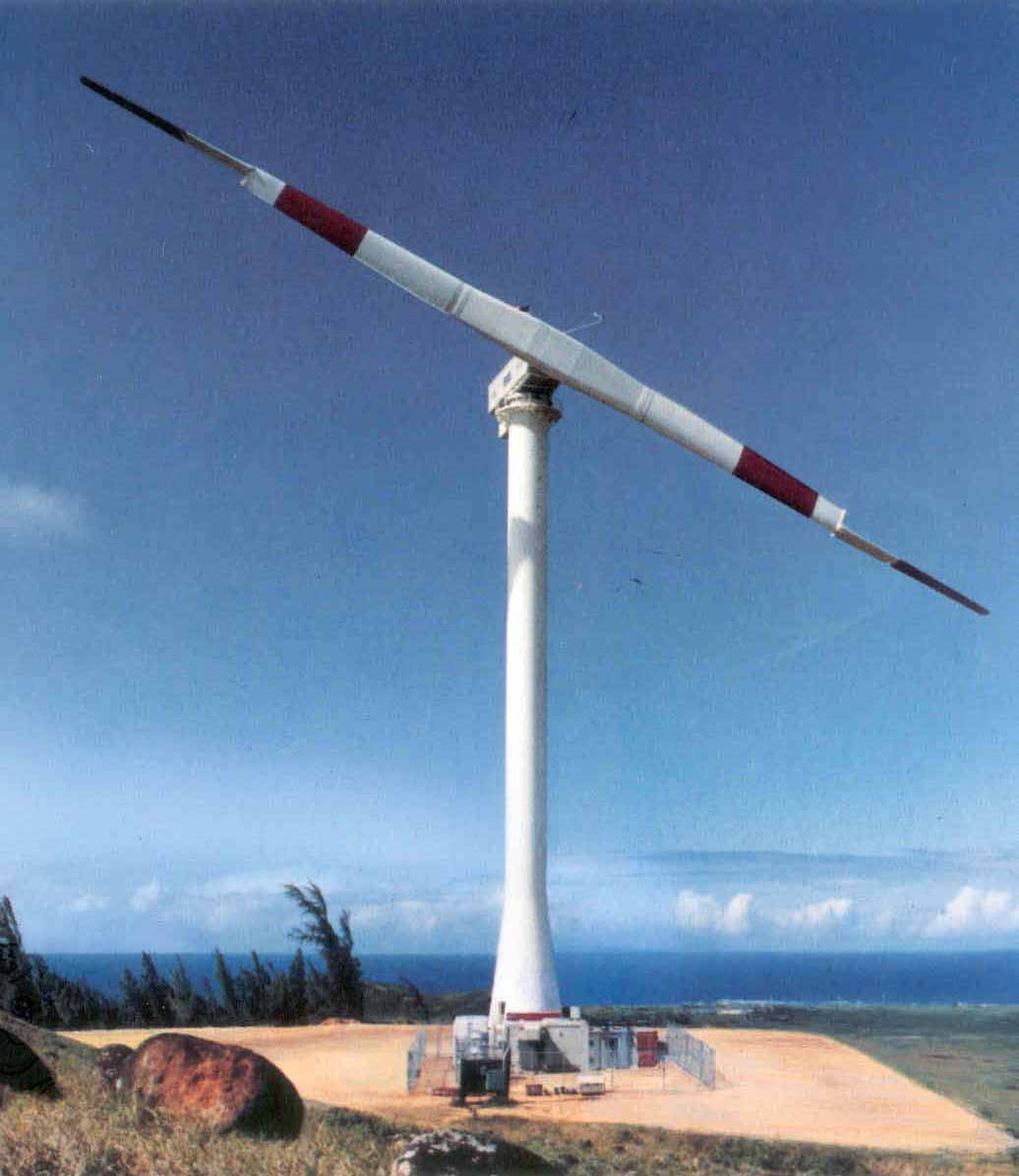 NASA/DOE Mod-5B wind turbine at Oahu, Hawaii, Photo by NASA Glenn Research Center